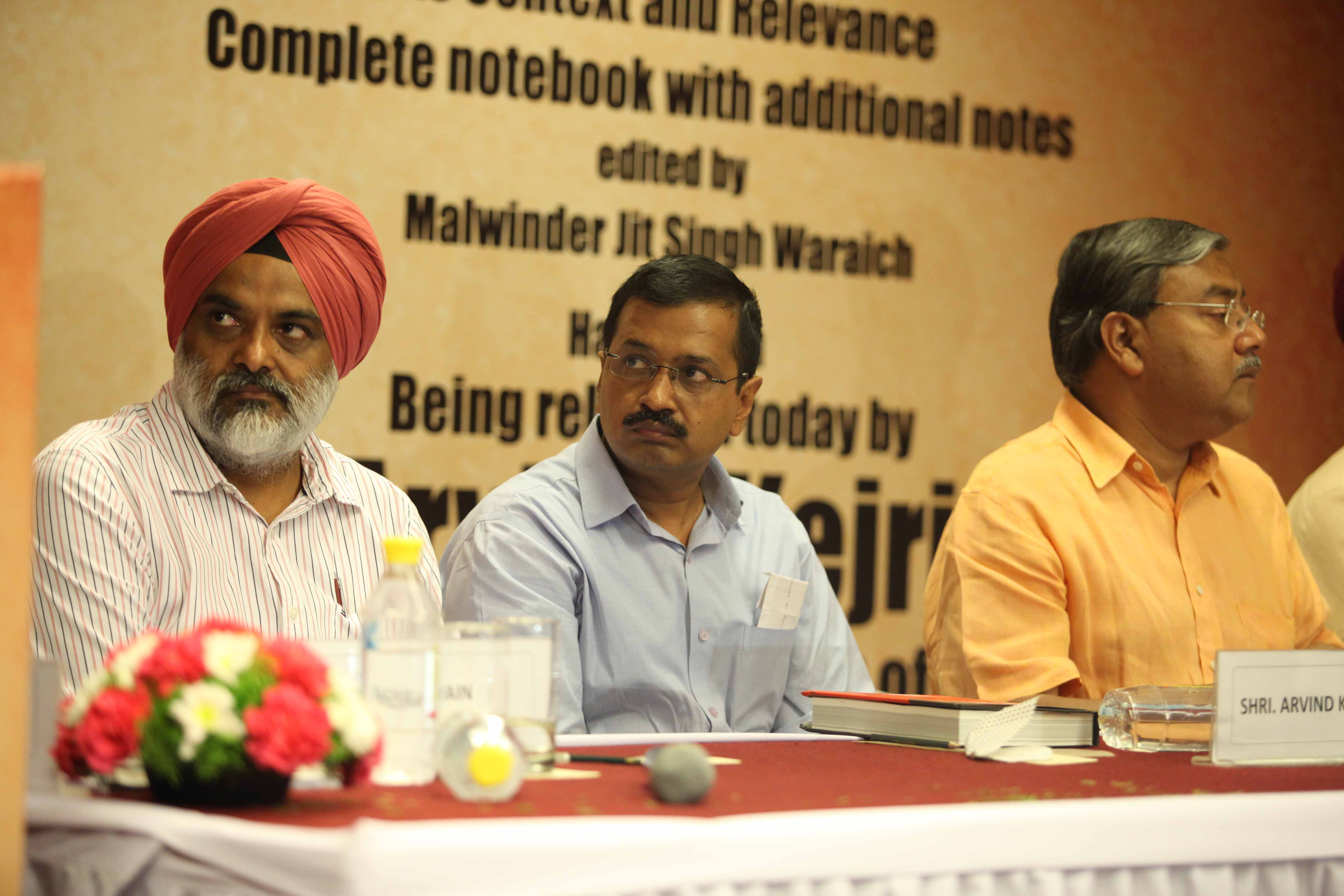 book release